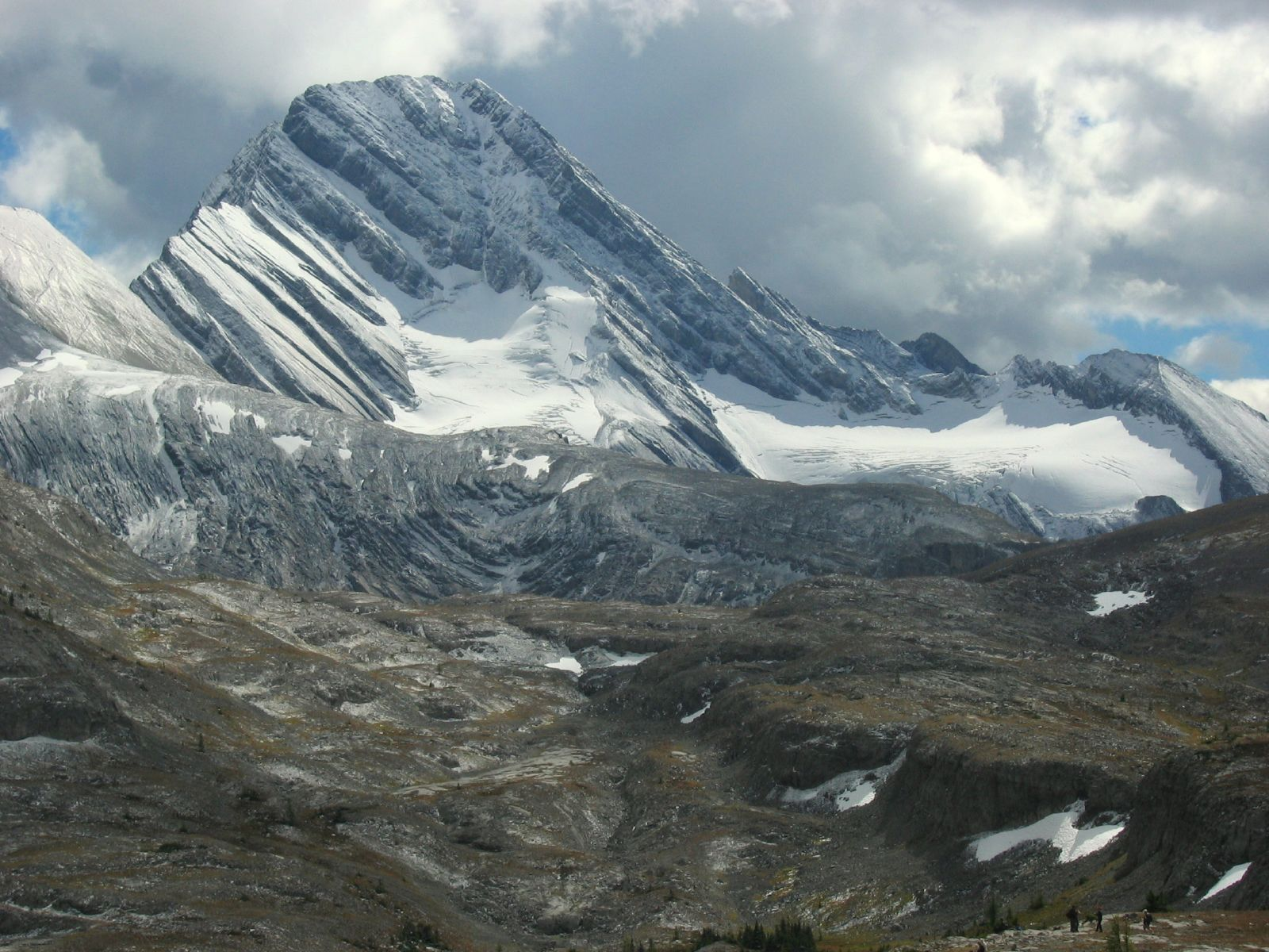 Mount Sir Douglas, on the border between British Columbia and Alberta, Canada